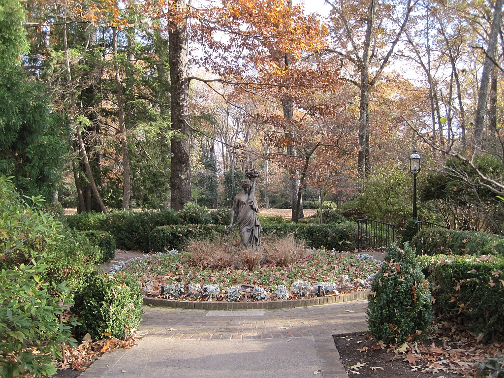 Sculpture in the Dixon's Woodlands Gardens. Dixon Gallery and Gardens - on Park Avenue in Memphis, Tennessee